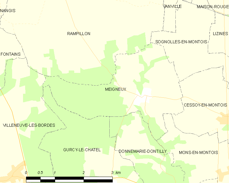 Map of French municipality Meigneux